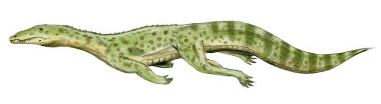 Qianosuchus mixtus, an archosaur from the Middle Triassic of China, after skeletal reconstruction by Matt Celeskey, pencil drawing